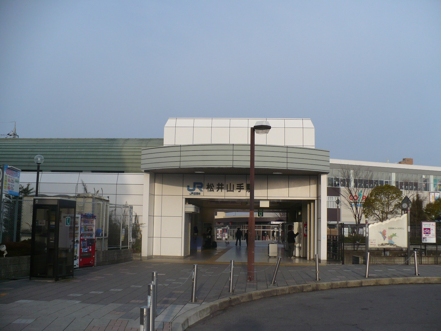 Frontview of Matsuiyamate station of West Japan railway company (JR West) Katamachi line, Kyotanabe city Kyoto prefecture Japan.